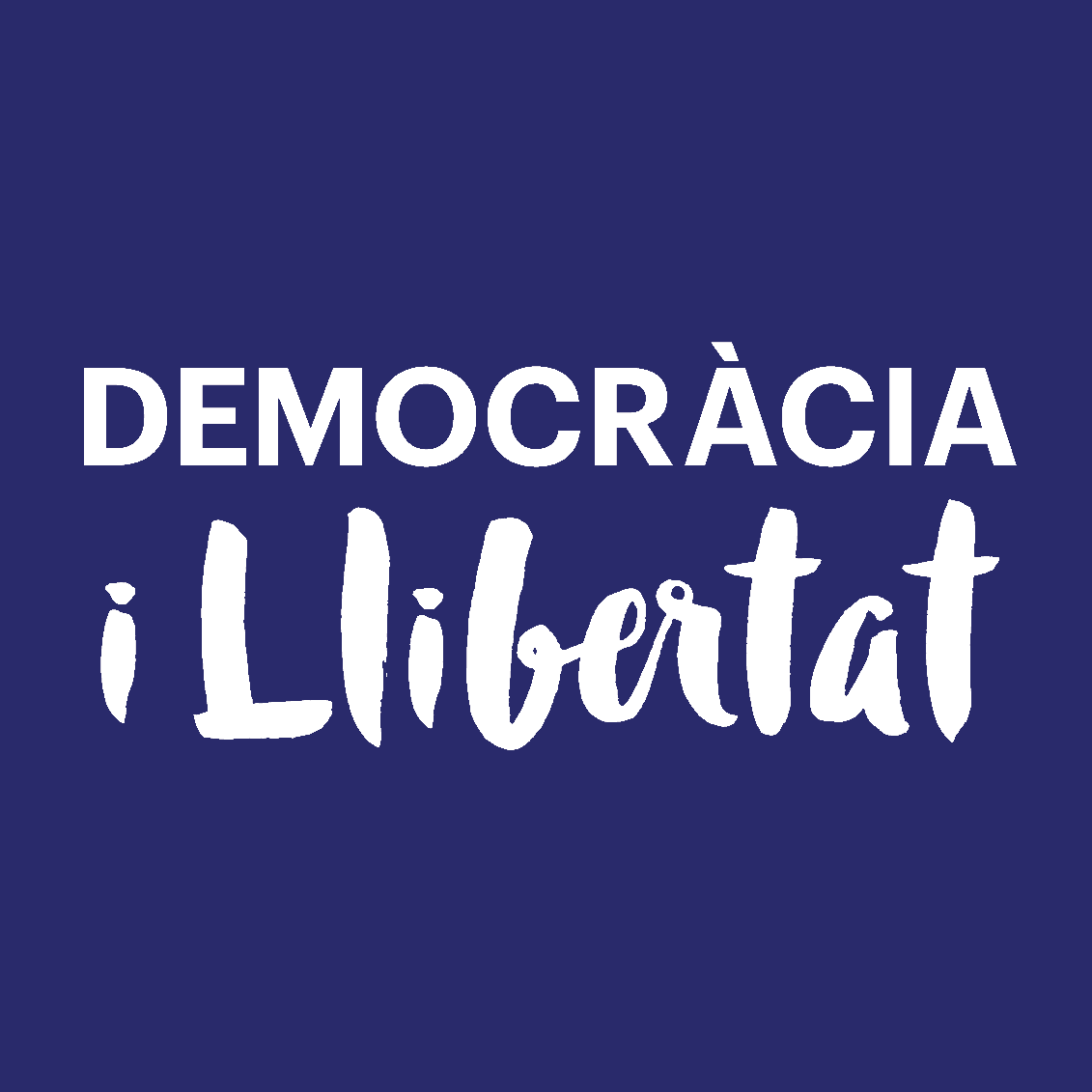 Democracia i Llibertat emblem.